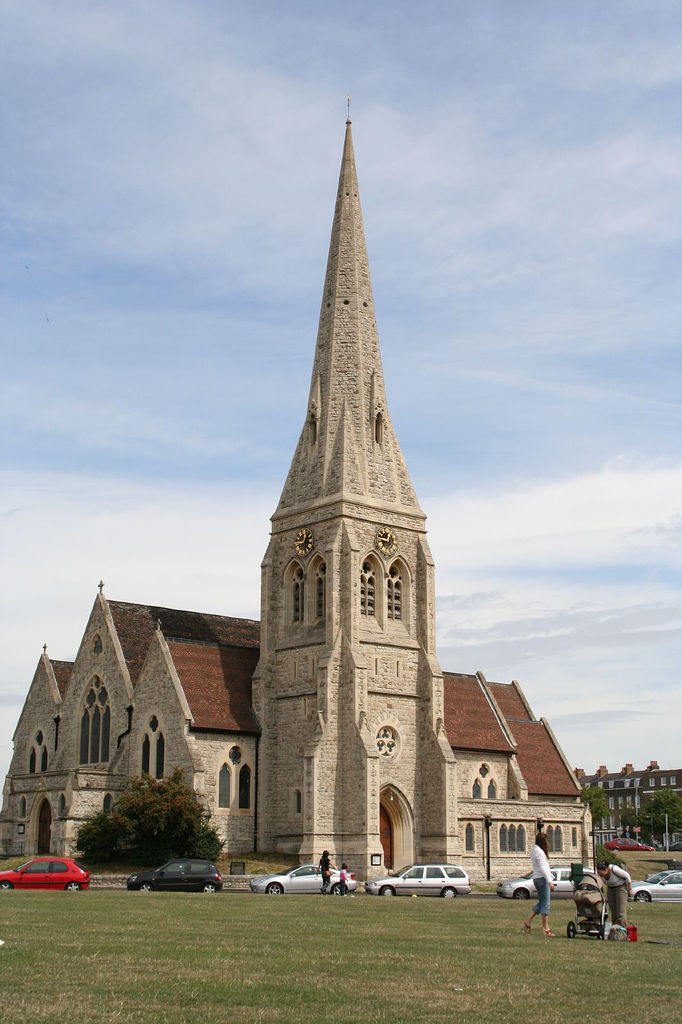 All Saints parish church, Blackheath, London, seen from the southwest